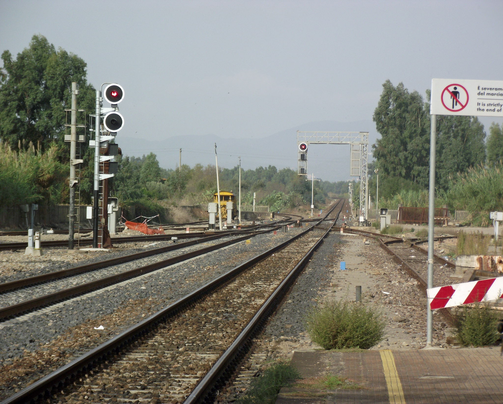 Railtracks in Villamassargia-Domusnovas station, in Sardinia, Italy. In the foreground the junction point of the branch line to Carbonia (track that turns on the left) with the Decimomannu-Iglesias (track on the right).